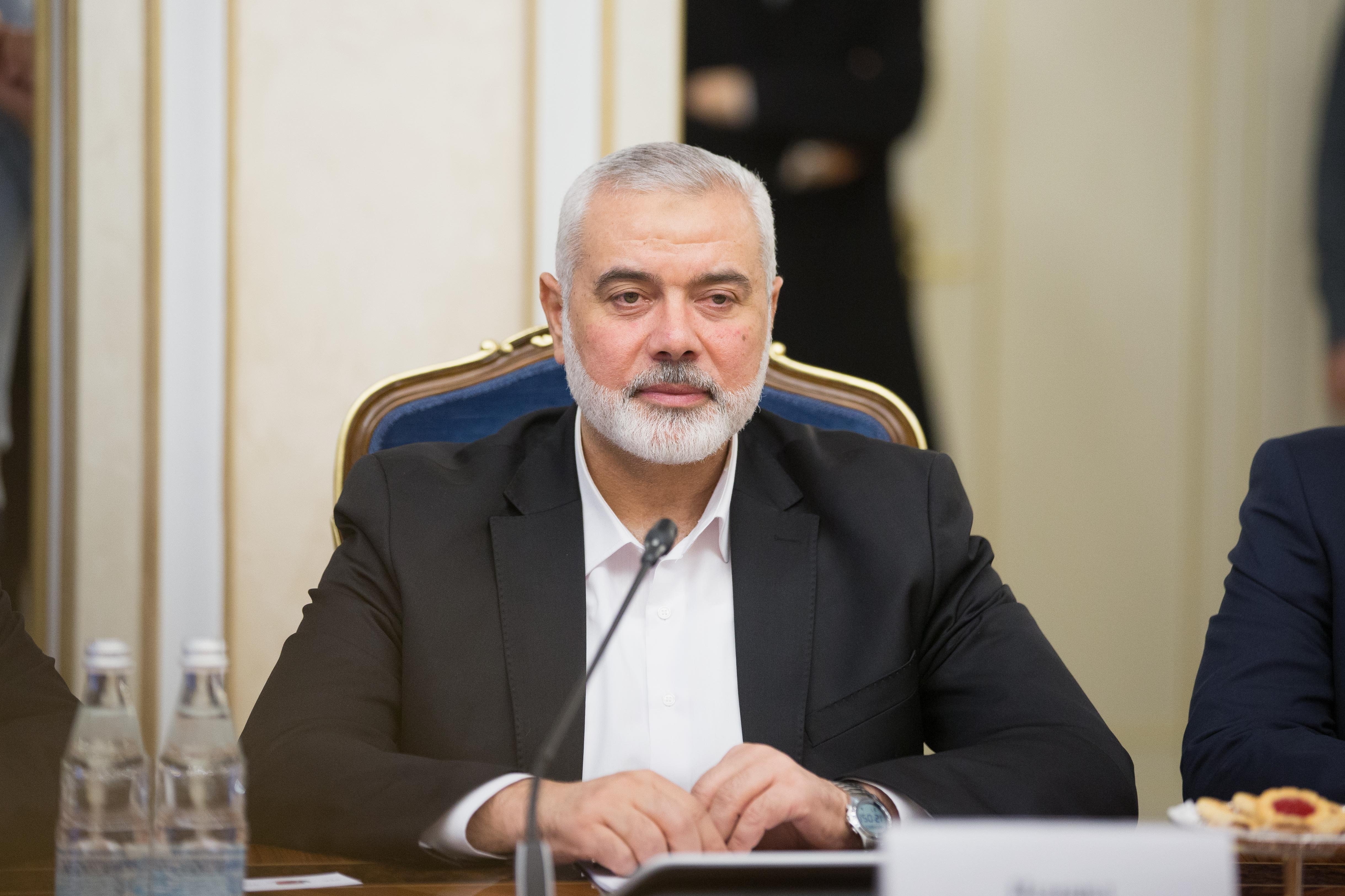 Ismail Abdel Salam Ahmed Haniyeh (Arabic: إسماعيل عبد السلام أحمد هنية, born 29 January 1962) is a senior political leader of Hamas